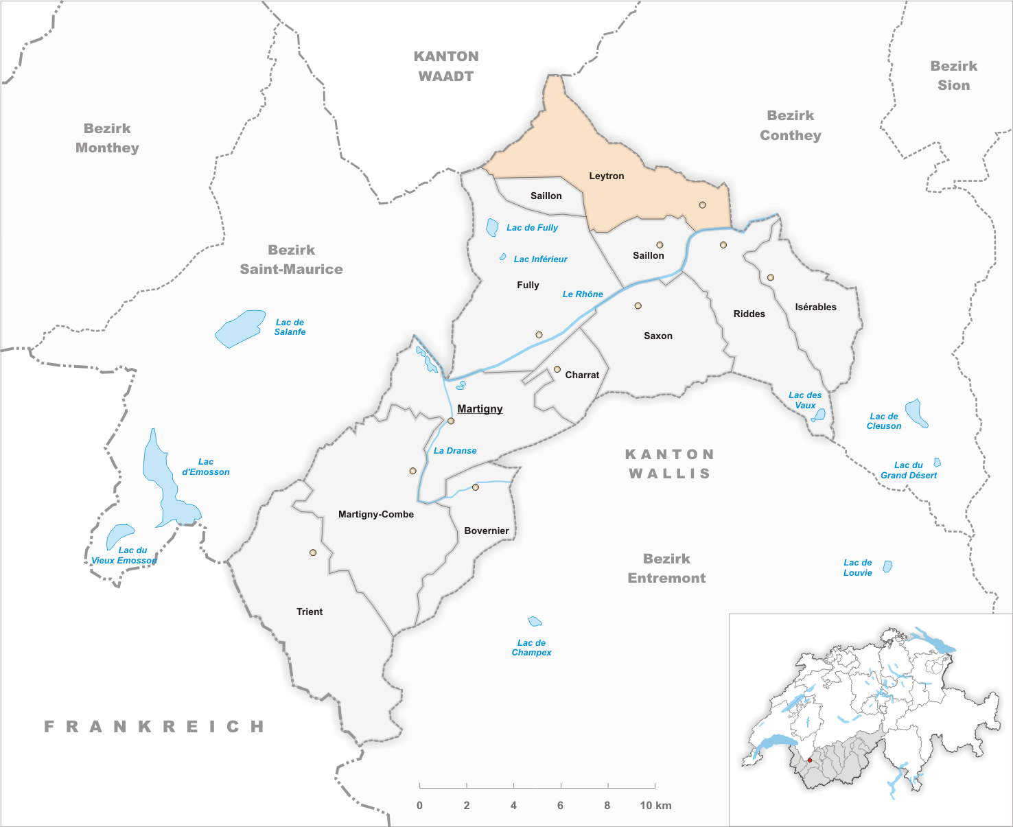 Municipality Leytron